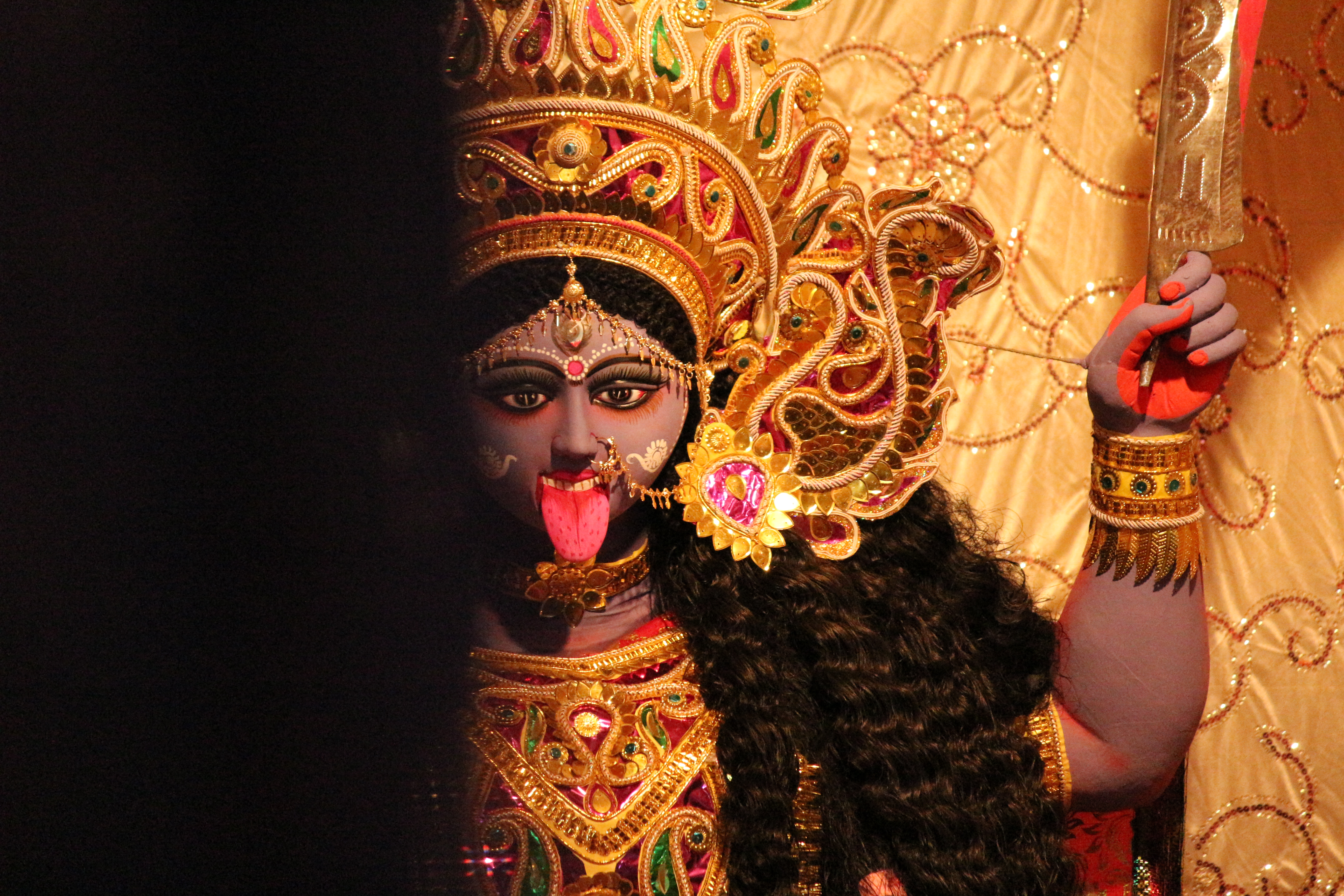 Kali Puja, also known as Shyama Puja or Mahanisha Puja, is a festival dedicated to the Hindu goddess Kali, celebrated on the new moon day of the Hindu month Kartik especially in West Bengal, Bihar, Odisha, Assam and Bangladesh.